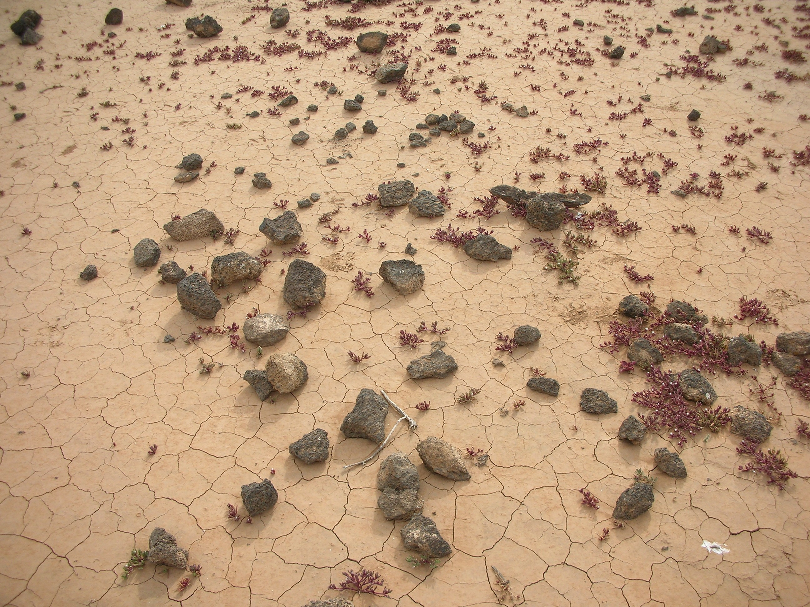 Lobos Island desertification